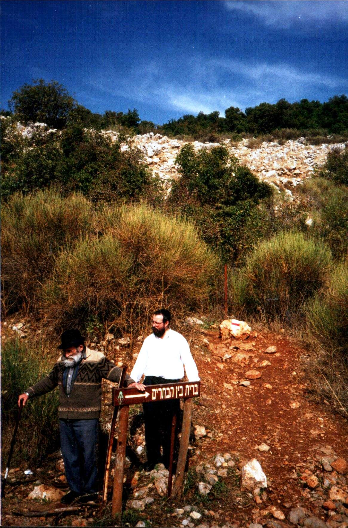 The way to Mount HaBetarim, where Abraham's Brit bein habetarim is supposed to have occurred, in Israel.